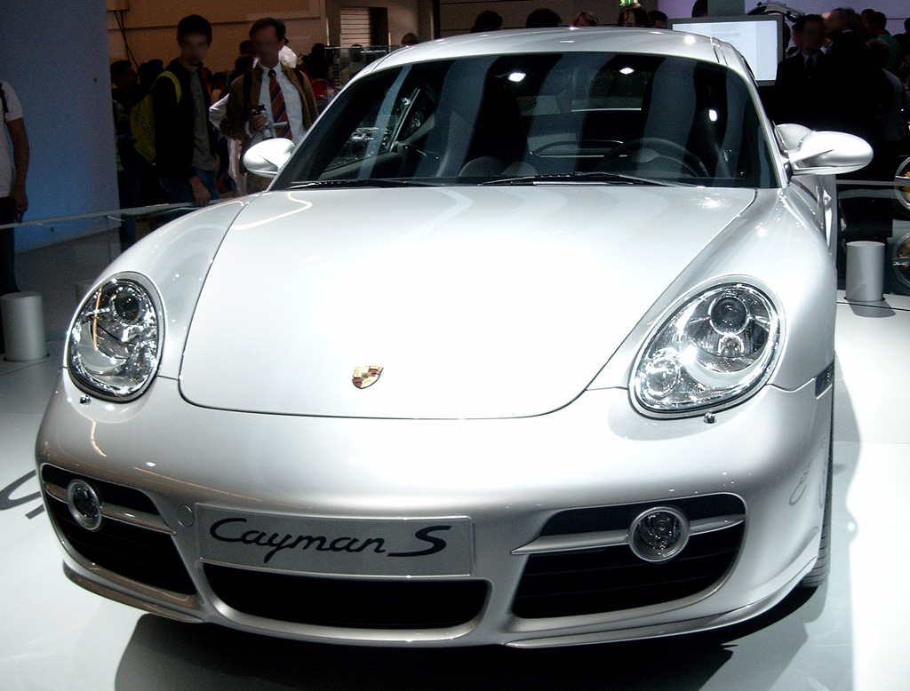 A silver Porsche Cayman at the IAA 2005 (Internationale Automobil-Ausstellung, Frankfurt, Germany)